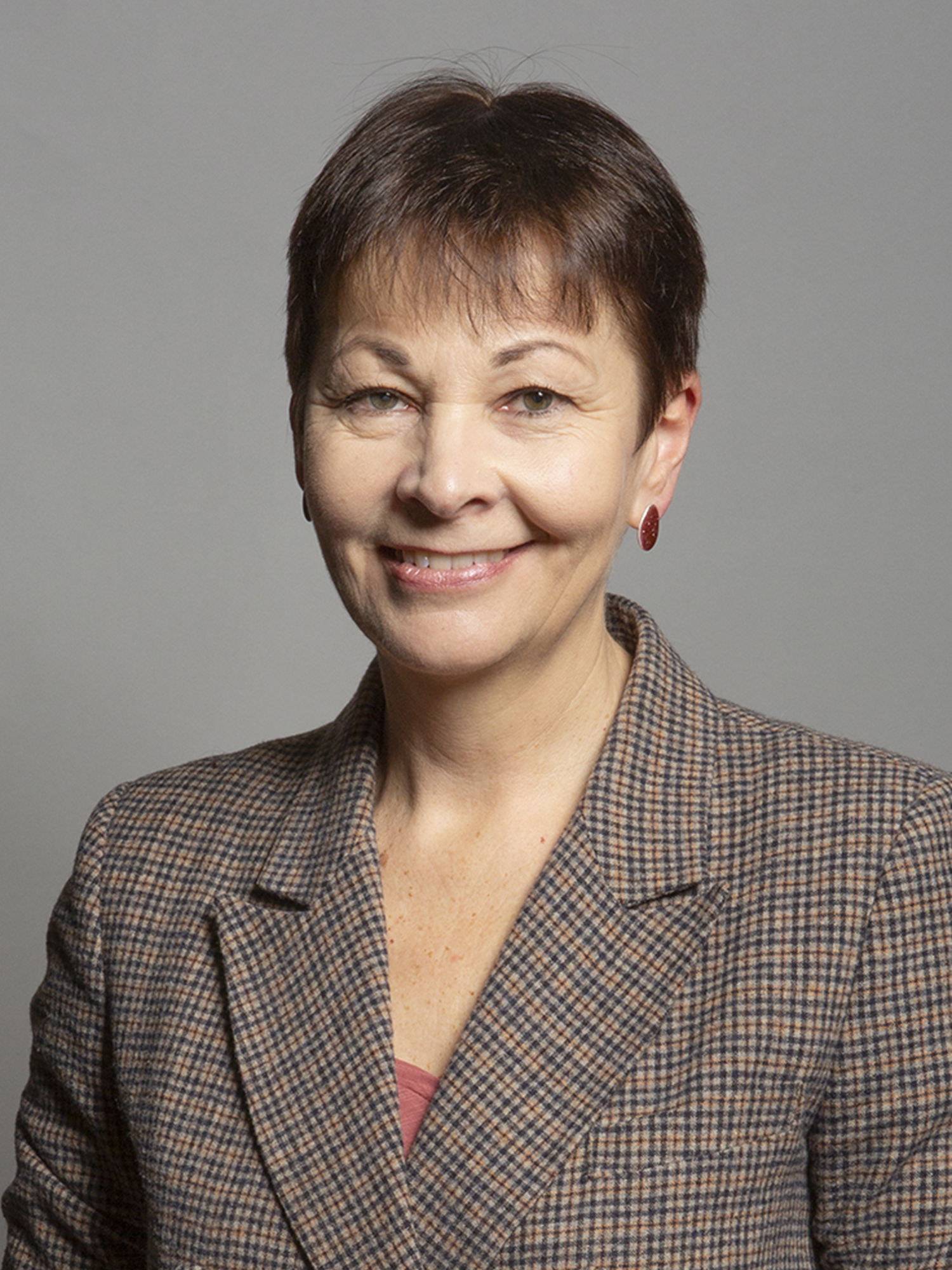 Official portrait of Caroline Lucas MP 3×4 portrait of Caroline Lucas from 2019